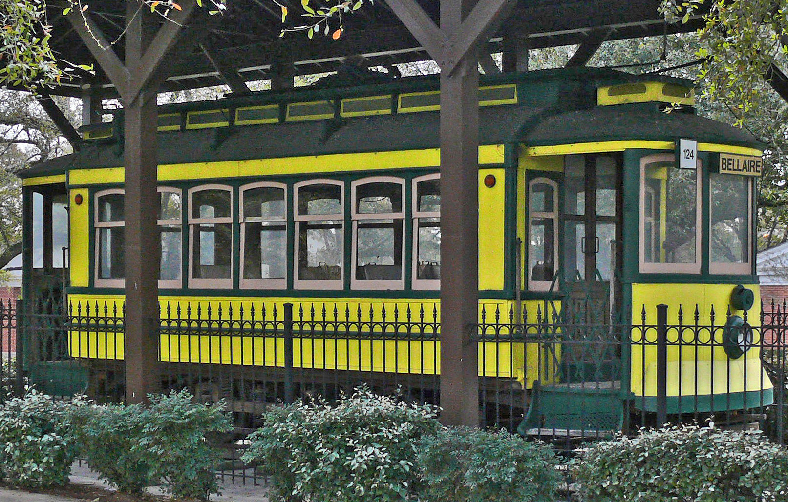 Bellaire, Texas' Streetcar. Now numbered 124, it is former Porto, Portugal car 173, built in Porto in 1929 but based on streetcars the Porto streetcar system had previously purchased from Philadelphia-based J.G. Brill Company in the early 20th century – and similar to streetcars that operated in Bellaire. It was imported from Portugal in 1985 by Oregon-based streetcar importer Gales Creek Enterprises, restored and placed on display in Bellaire in autumn 1985. It was renumbered 124, in honor of a streetcar that had run on the former Bellaire system.